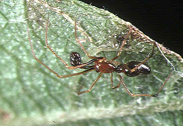 male Coleosoma blandum from Okinawa.